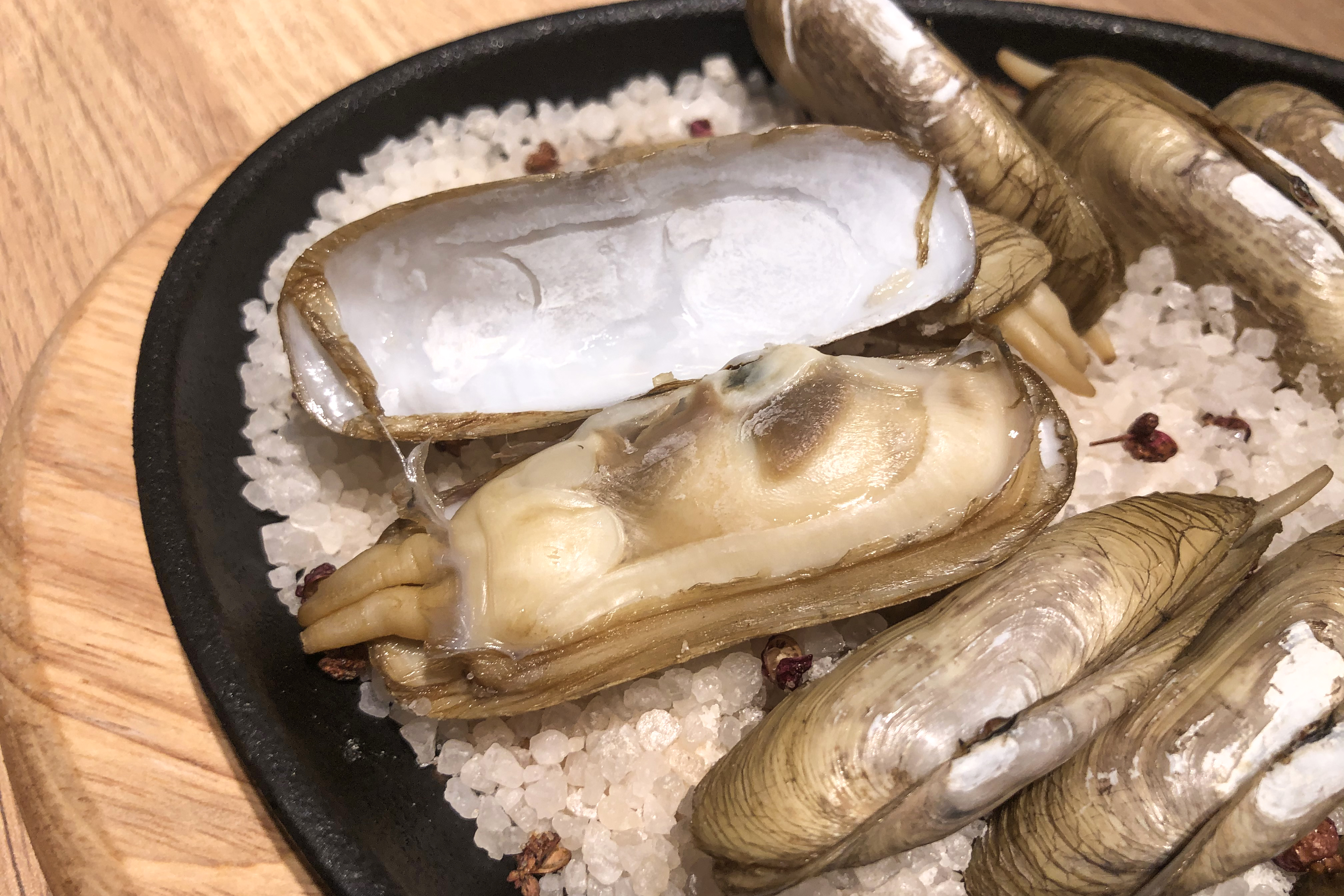 Original taste - without any dipping.